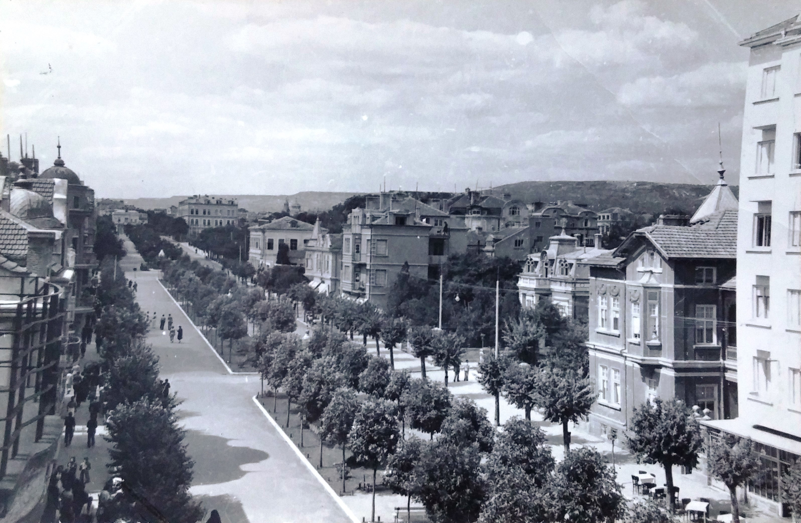 Varna. Photos of "Slivnitsa" boulevard.